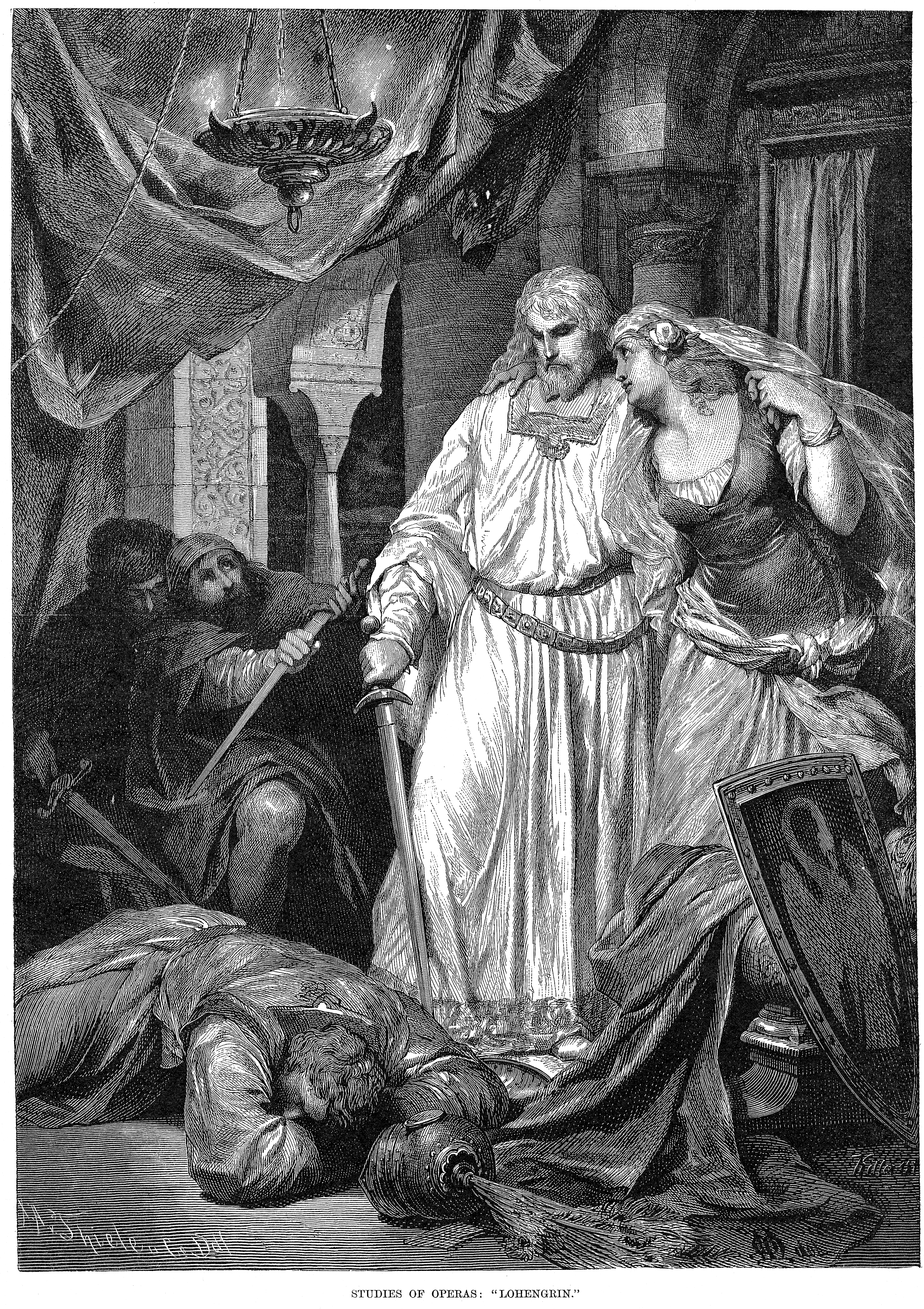 Scene from Wagner's Lohengrin, as performed at the London première.